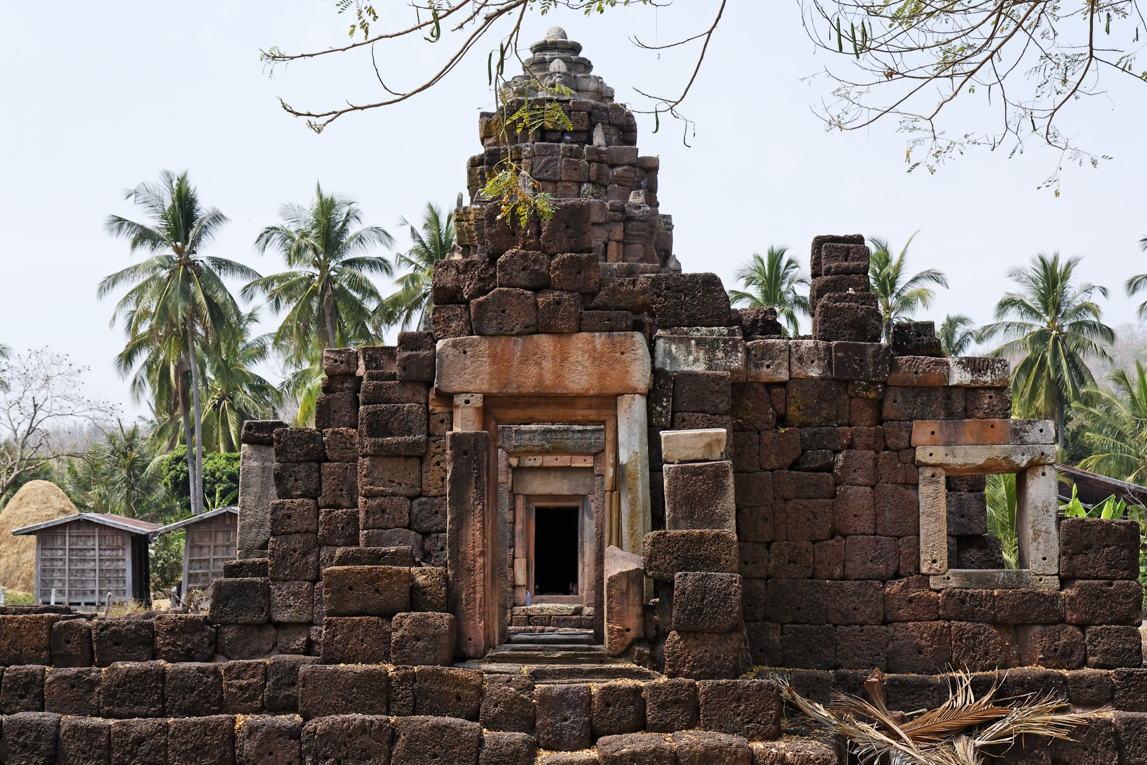 Kuti Reussi #1 (Ban Nong Bea Lai), Thailand